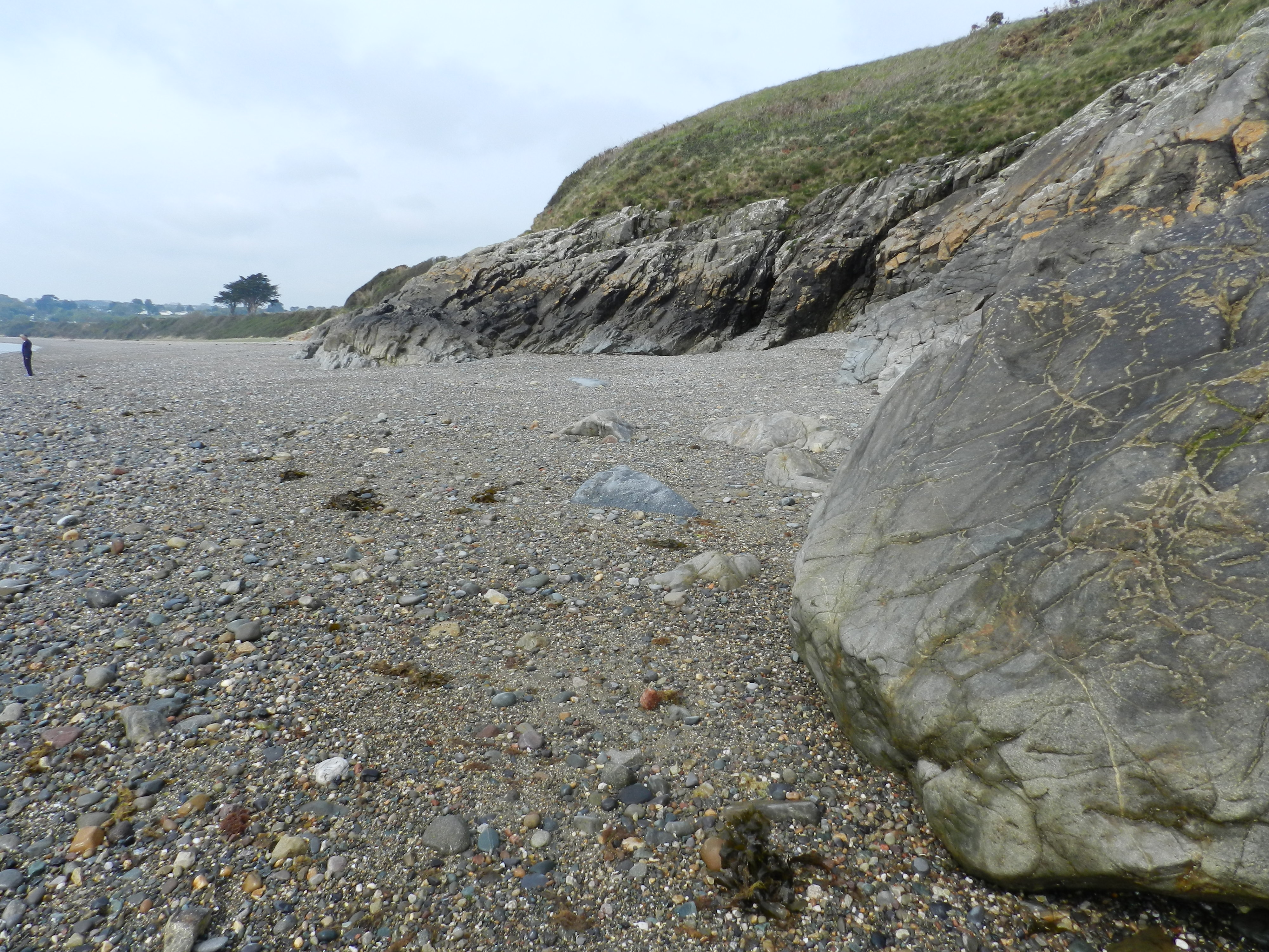 Beach at Carreg y Defaid. Volcanic rocks of the Llanbedrog Volcanic Group